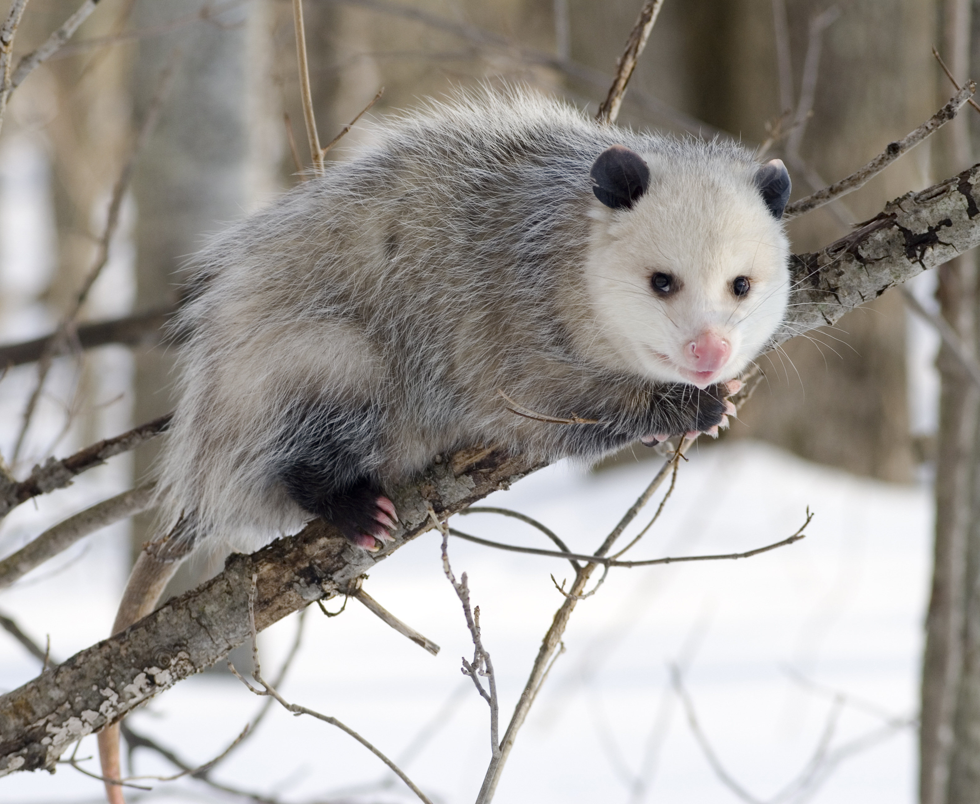 North American Opossum with winter coat.